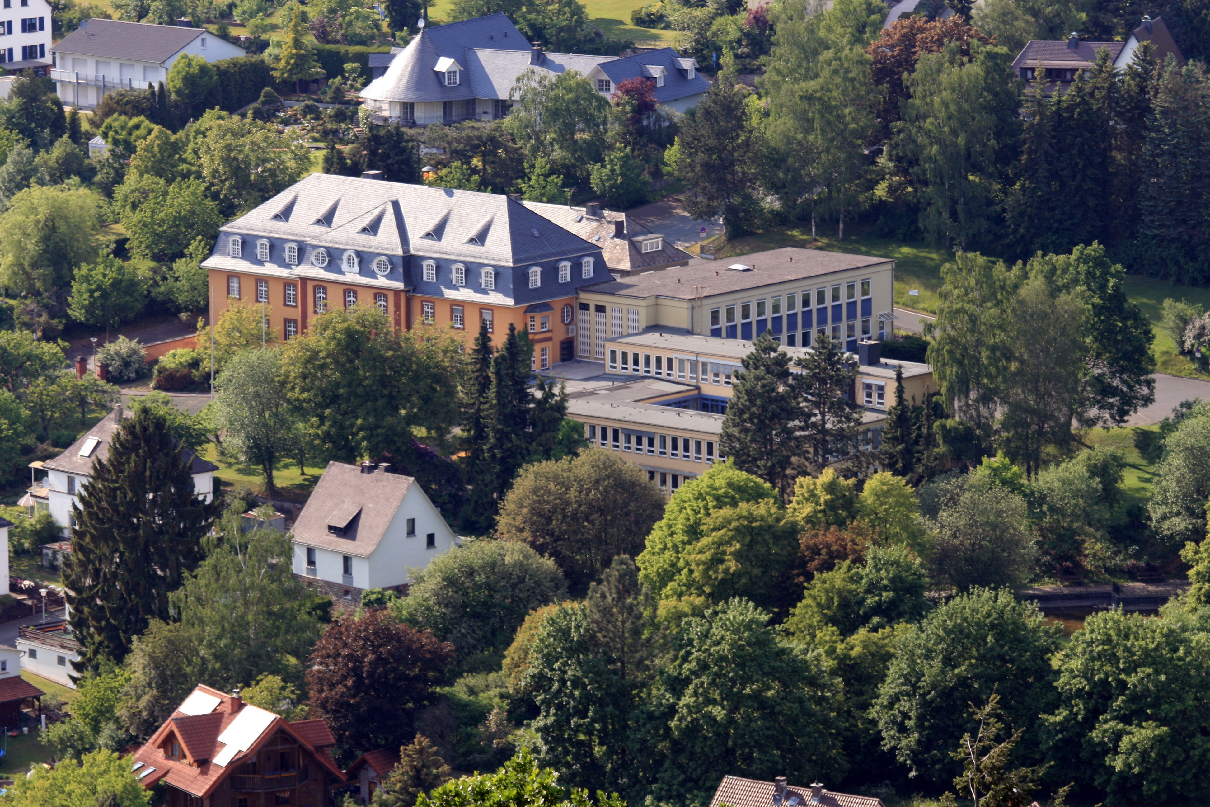 Germany, Hesse, Biedenkopf/Lahn: Branch of the district administration of the district of Marburg-Biedenkopf, district office.